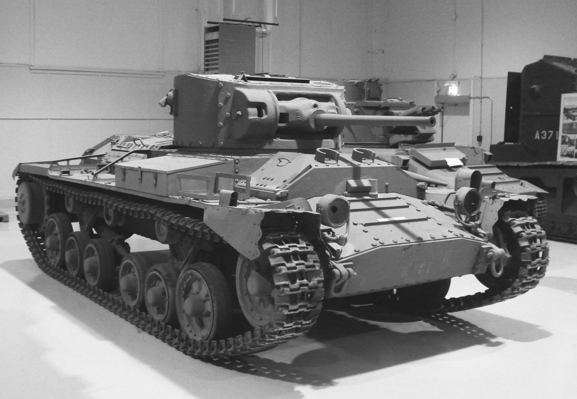 Valentine Mark VI tank at Base Borden Military Museum